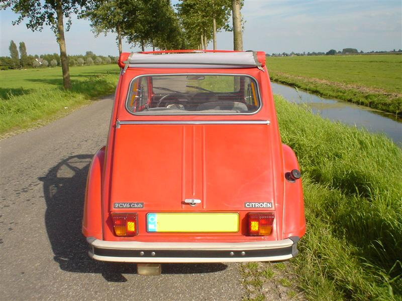 1989 2CV6